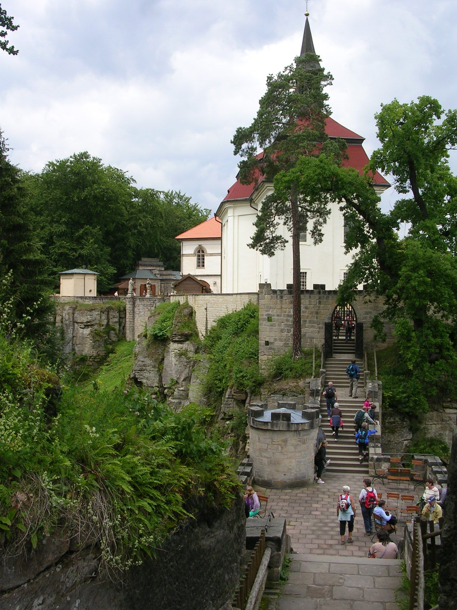 Valdštejn Castle, Liberec Region, the Czech Republic.